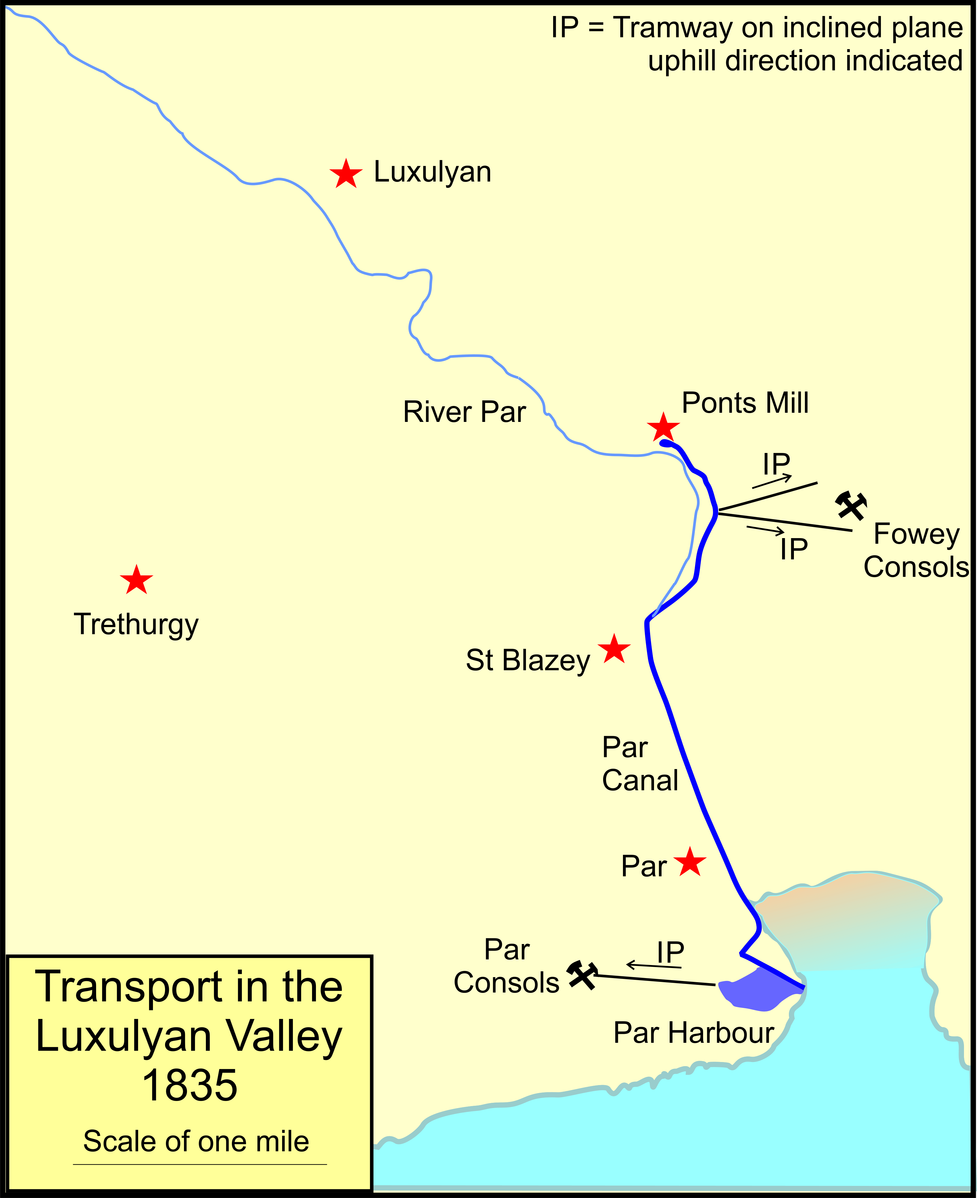 Canal and tramways in the Luxulyan Valley, Cornwall ,England, in 1835